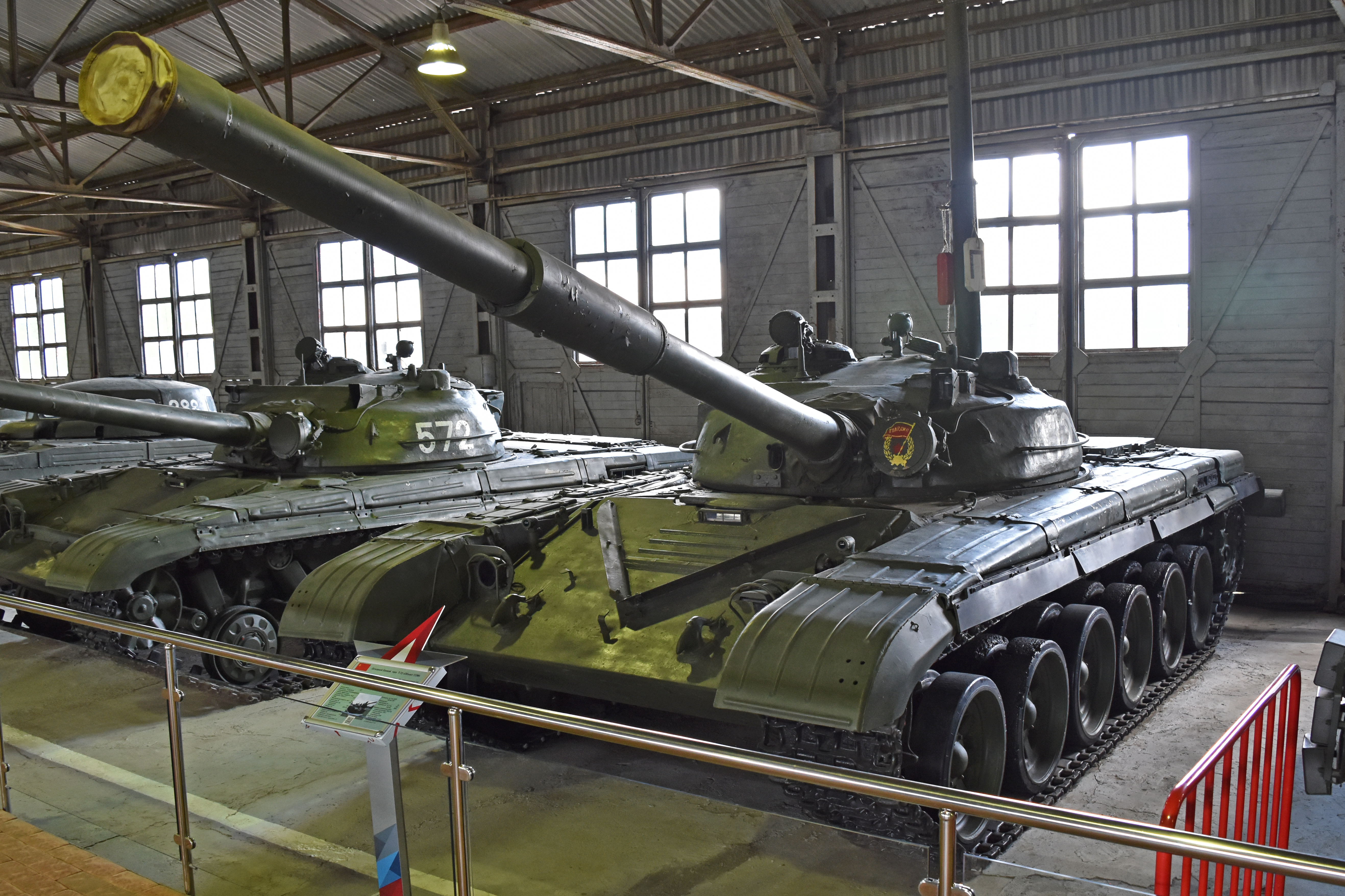 Obiekt 172M (Object 172M) was developed from Obiekt 172 in 1971 and was a prototype for what would become the T-72 Main Battle Tank. On display in what is best known as Hall 2 of the Kubinka Tank Museum, although its official title is now Pavilion 2 in Area 2 of the Park Patriot museum. Kubinka, Moscow Oblast, Russia. 24th August 2017.